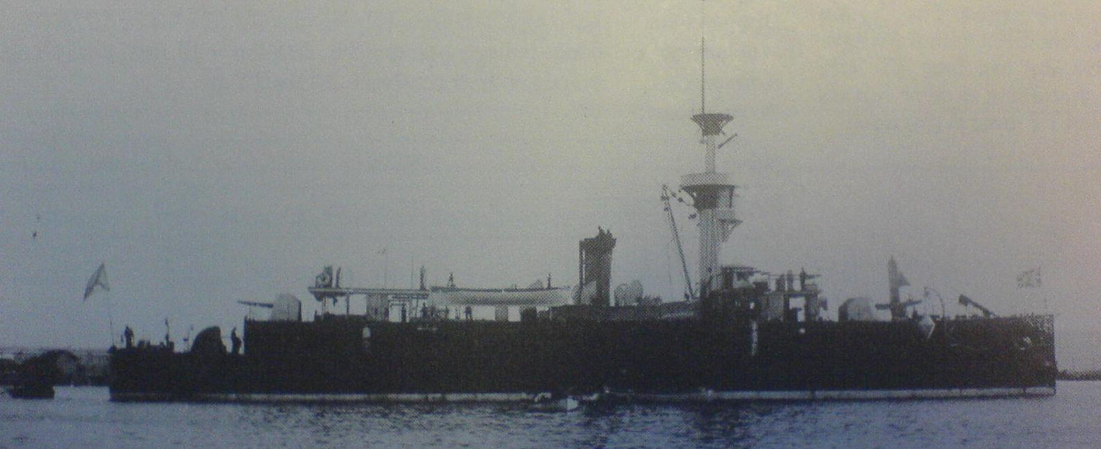 Image of Russian gunboat Gilyak, taken at the turn of the century.